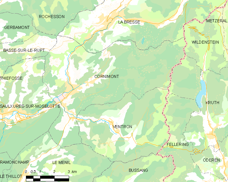 Map of French municipality Cornimont